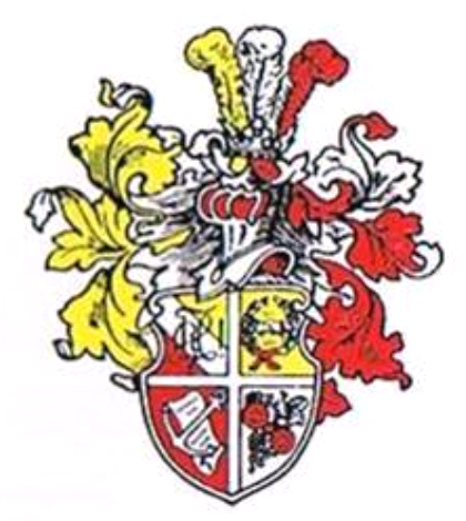 coat of arms of the Hasso-Rhenania Gießen